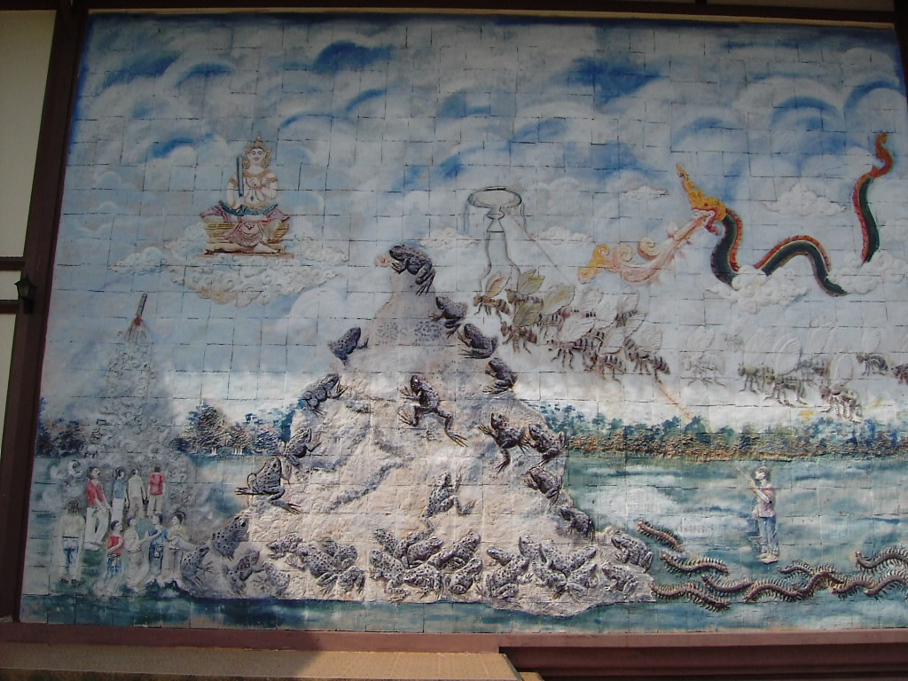 Mural to right of Yasothon Rocket Festival Museum, depicting King Toad and allies mounting termite hill for assault on Phaya Tan, with air support from Phaya Daw (Hornet) and Phaya Nark (Naga), with fall-time Wow (sounder kite) in background; photographed by me, Pawyi Lee